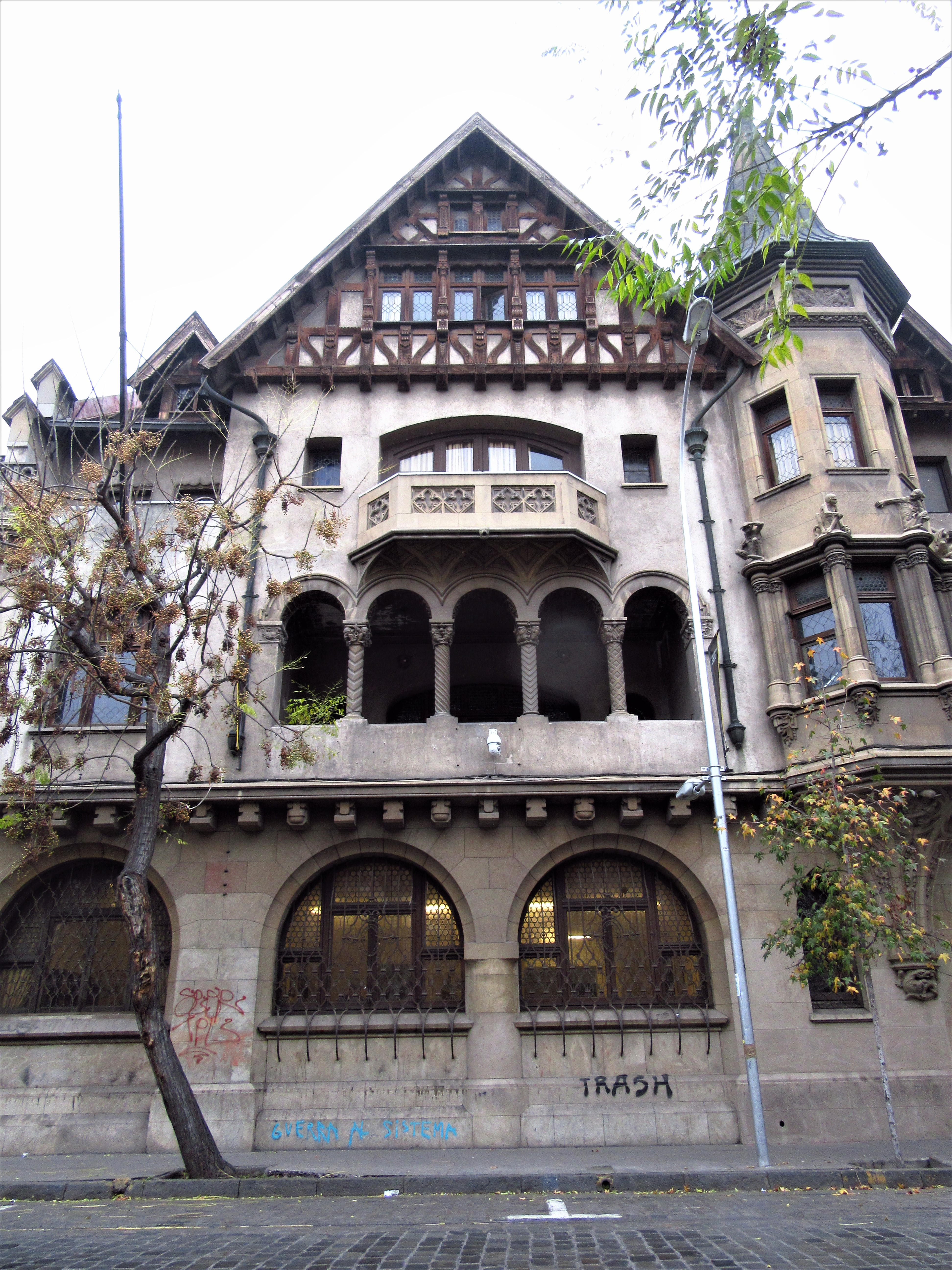 2017 in Santiago de Chile. Casa Cienfuegos